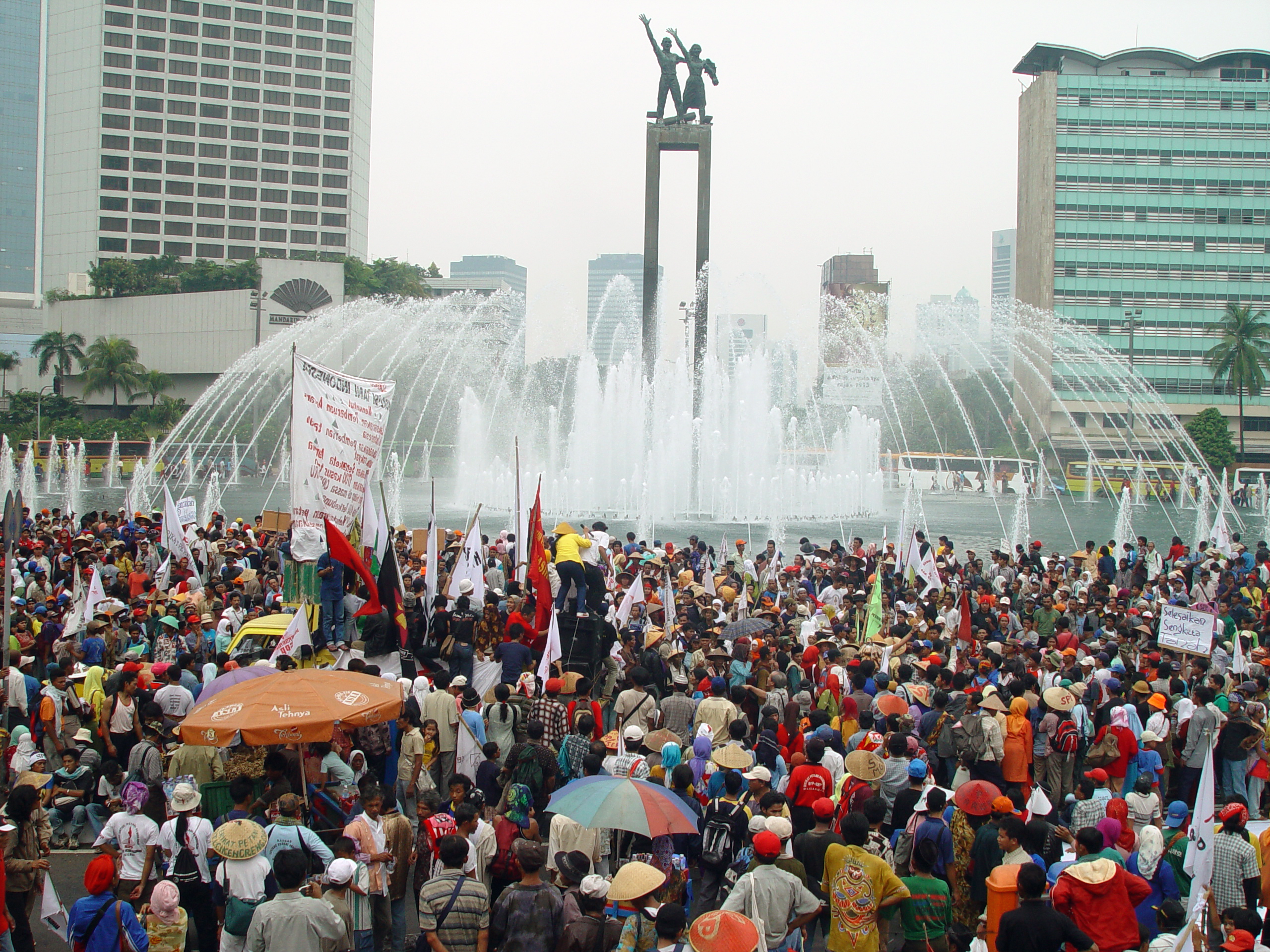 Farmer land rights protest in Jakarta, Indonesia.